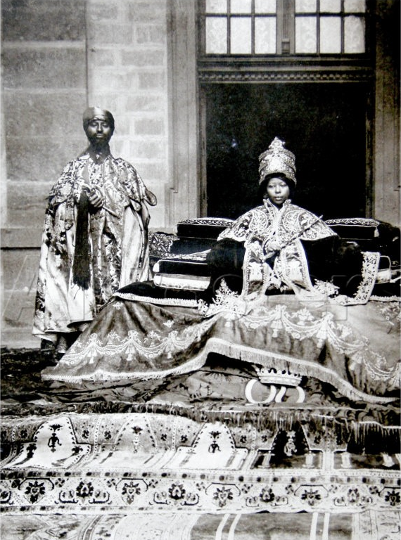 "Queen of Kings": Empress Zewditu I and with Regent Ras Tafari Makonnen.